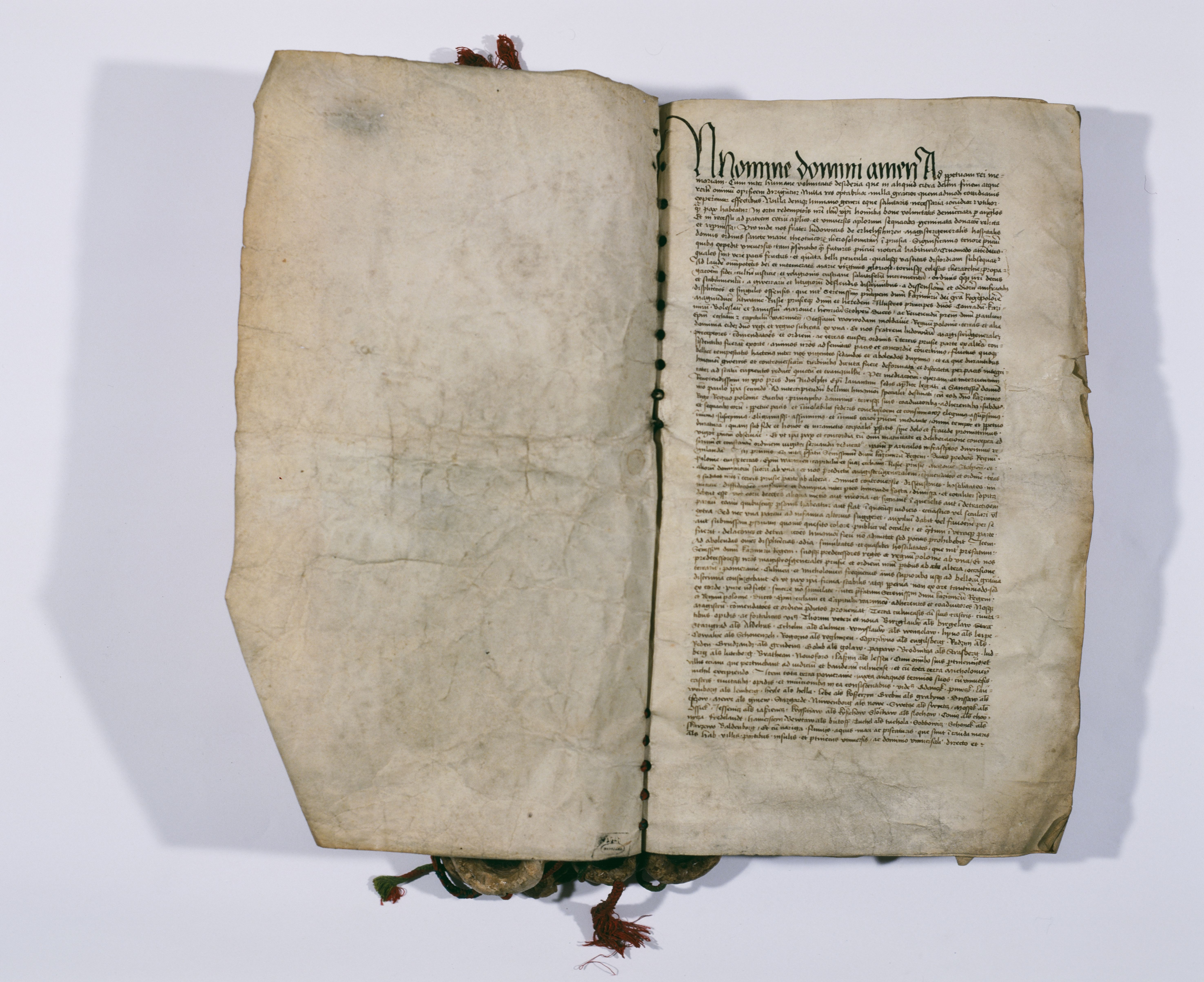 The Second Peace of Thorn of 1466 (German: Zweiter Friede von Thorn